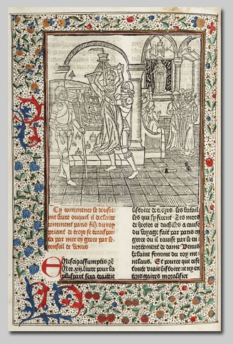 Introductory page from the 1484 Ovid edition by Colard Mansion